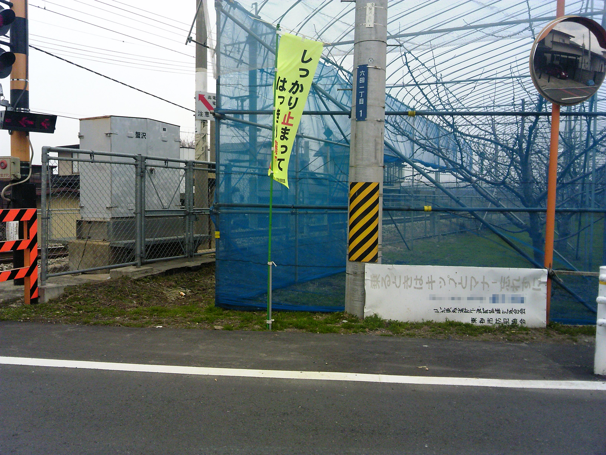 Site of Ou Main Line Kanisawa Station